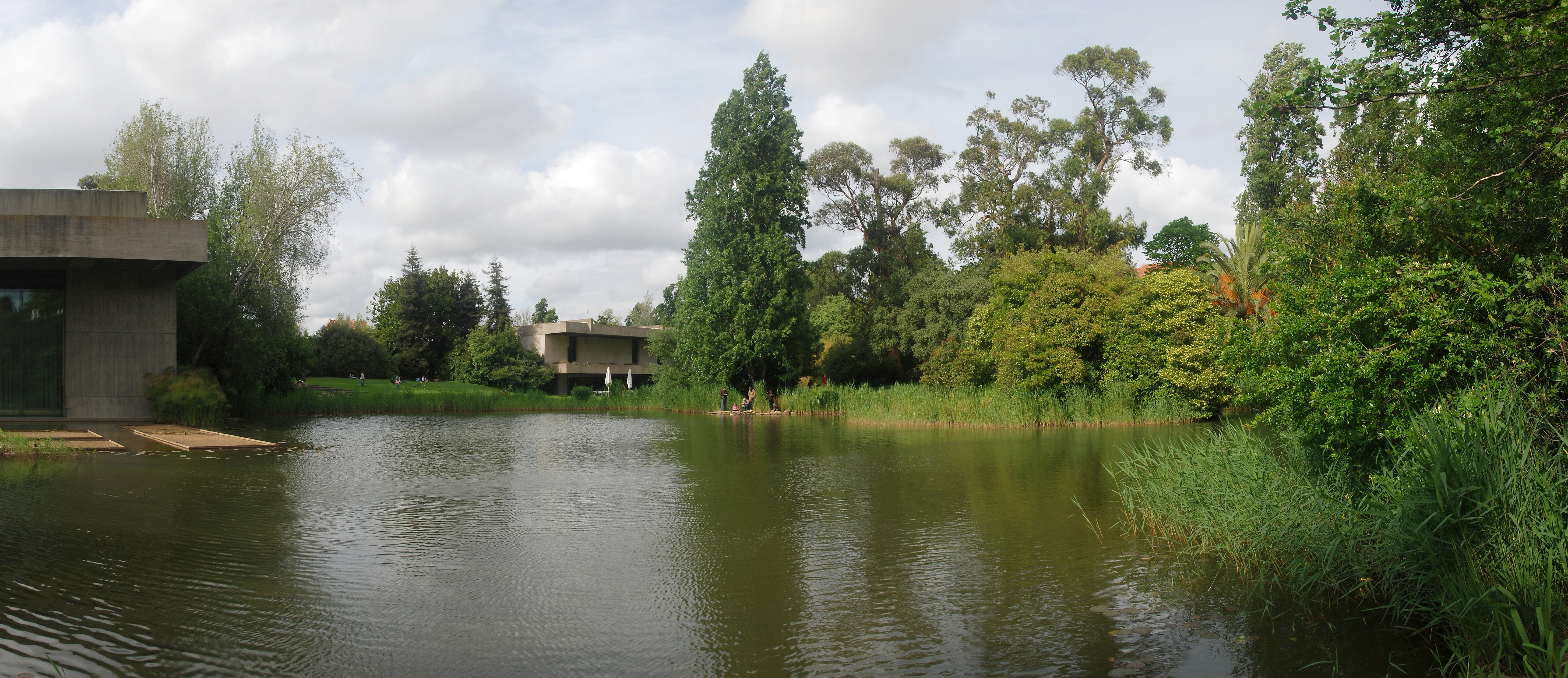 Calouste Gulbenkian Foundation - detail of the gardens. Lisboa, Portugal